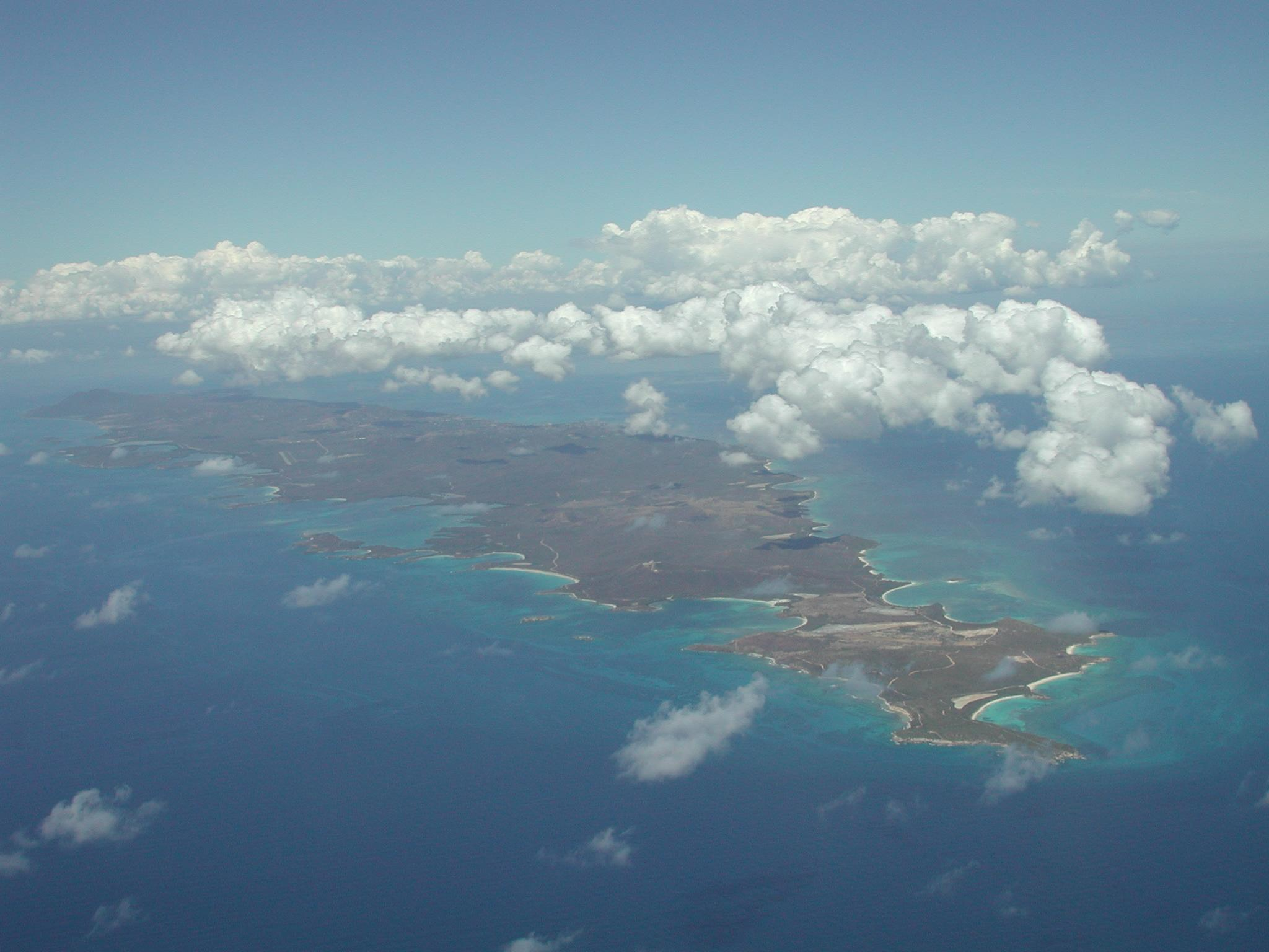 Vieques Island, Puerto Rico viewed from the air